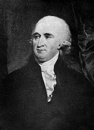 Portrait from the book A Godchild of Washington by Katharine Schuyler Baxter